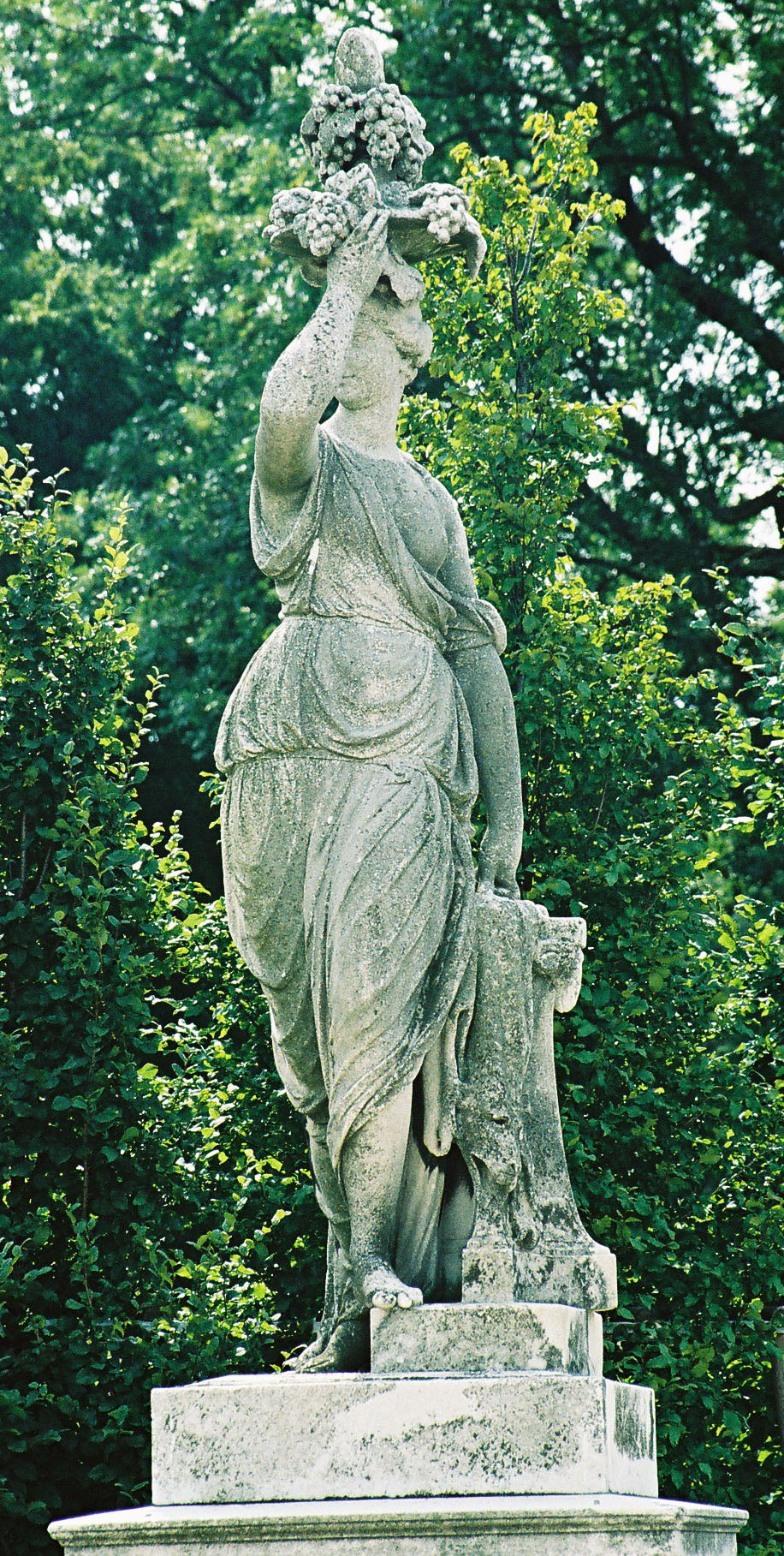 Vienna, Schönbrunn gardens, statue Maenad